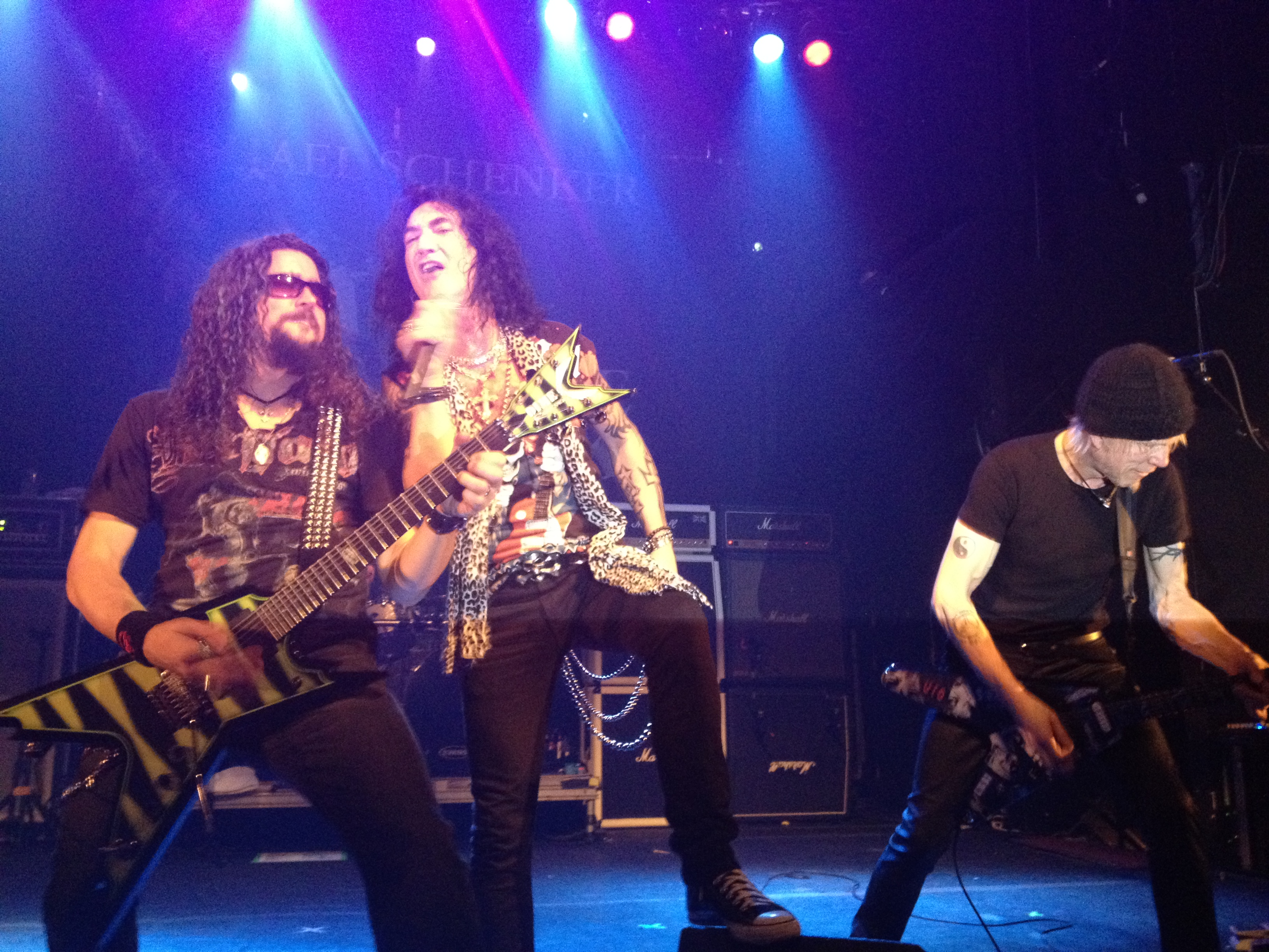 Michael Schenker Group performing live at the Gramercy Theater in NYC on March 9th, 2012